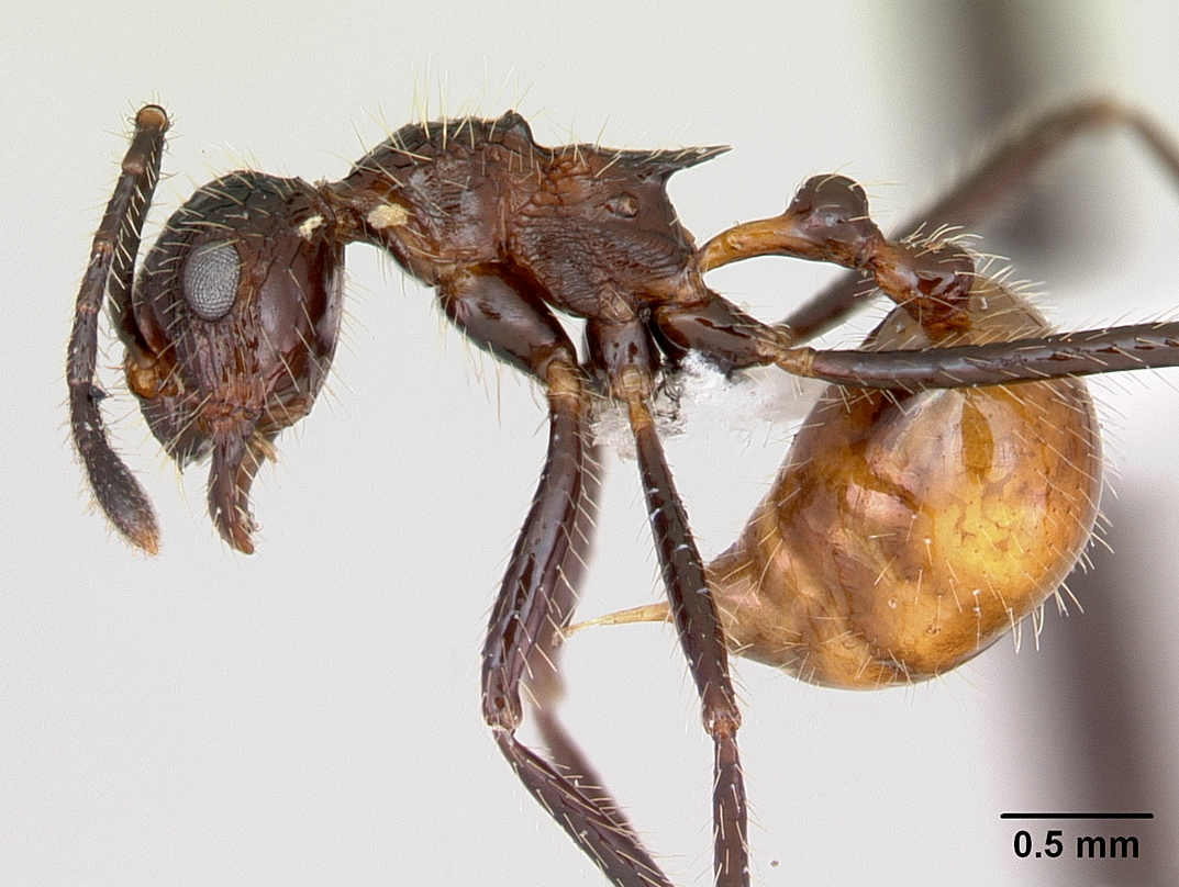 Profile view of ant Myrmicaria exigua specimen casent0403455.